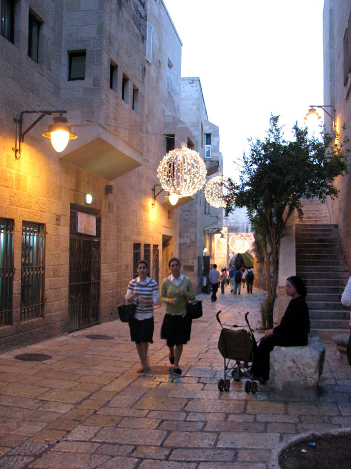 Old Jerusalem, Jewish Quarter,Tiferet Israel street lookin towards west